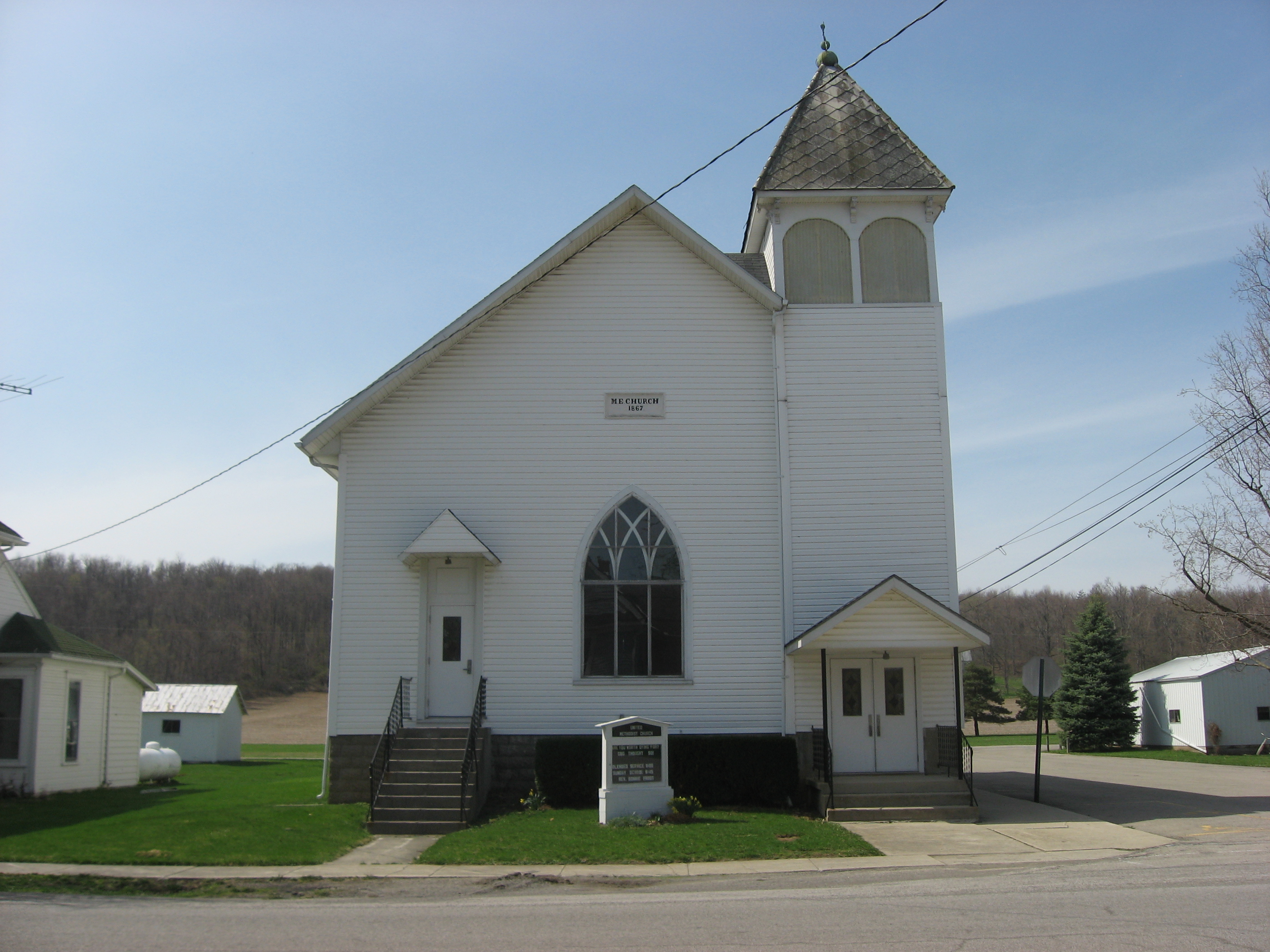 Zanesfield United Methodist Church, located at 2880 Main Street in Zanesfield, Ohio, United States. Church profile.